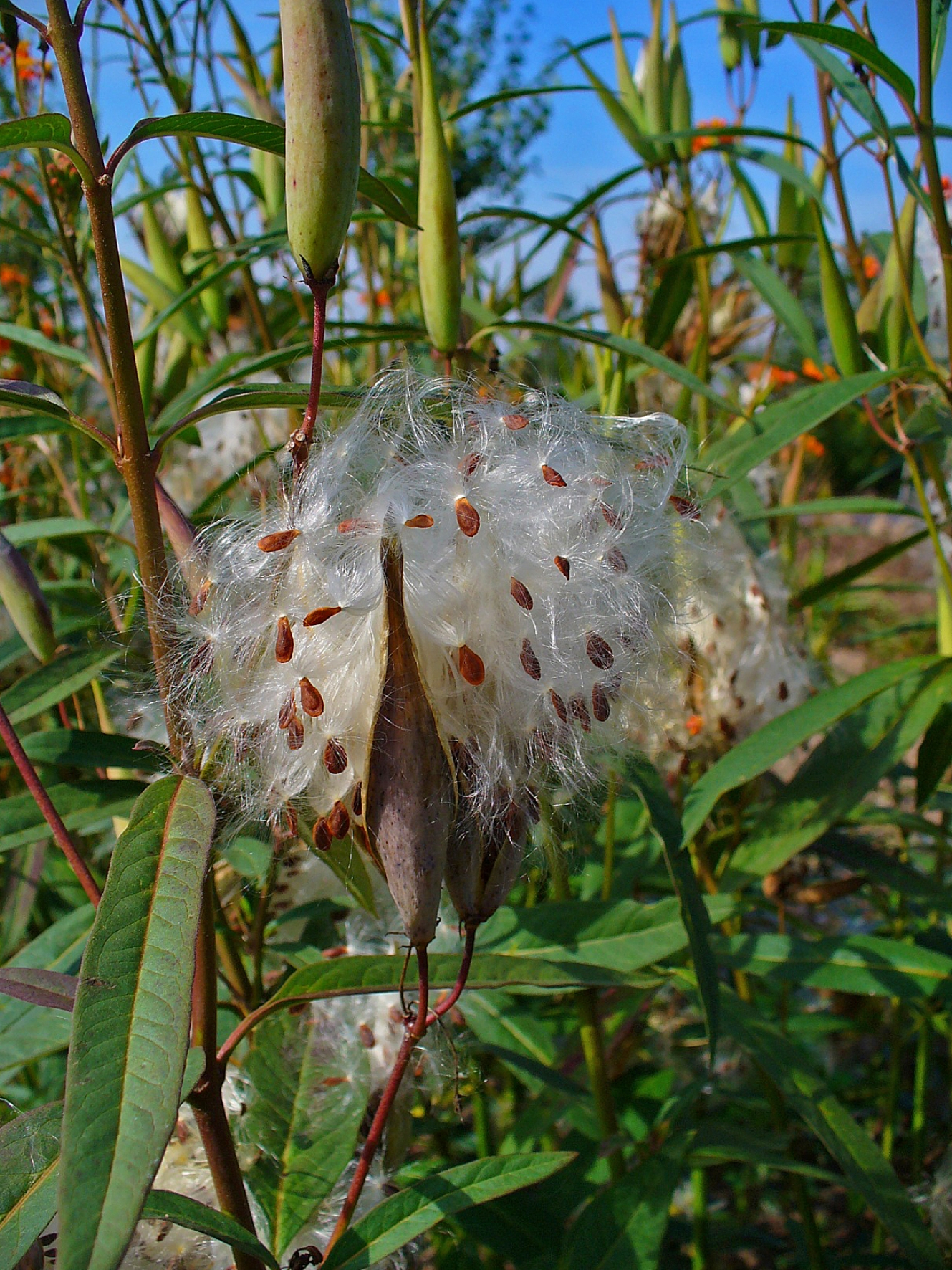 Asclepias curassavica, Apocyanaceae, Mexican Butterfly Weed, Blood-flower, Scarlet Milkweed, seeds. The blooming plants are used in homeopathy as remedy: Asclepias curassavica (Asc-cu.)